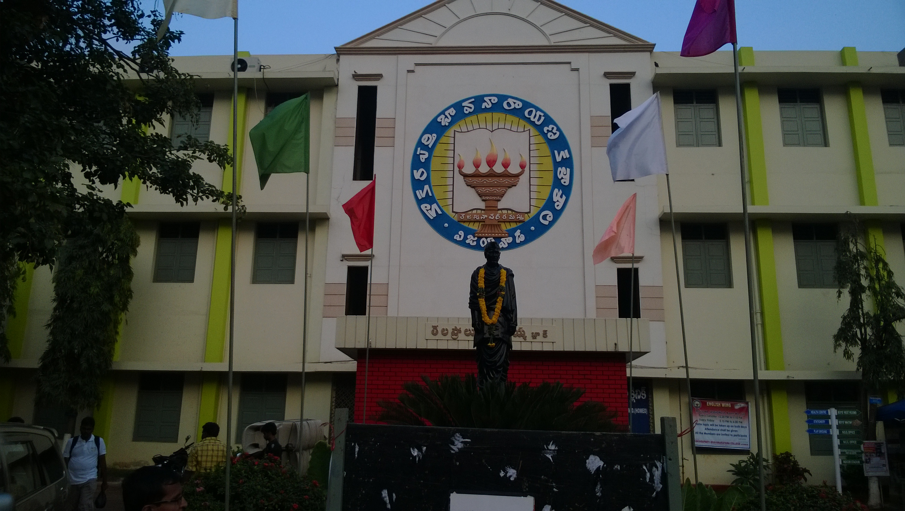 Kakaraparthi Bhava Narayana College, Vijayawada